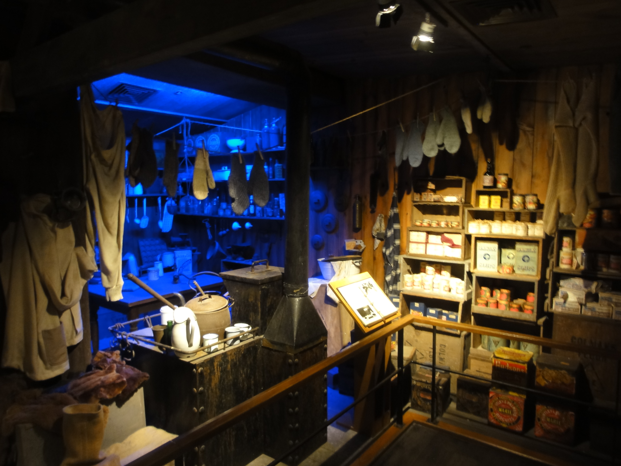 Replica of Scotts hut at Kelly Tarlton's Sea Life Aquarium, Auckland, NZ